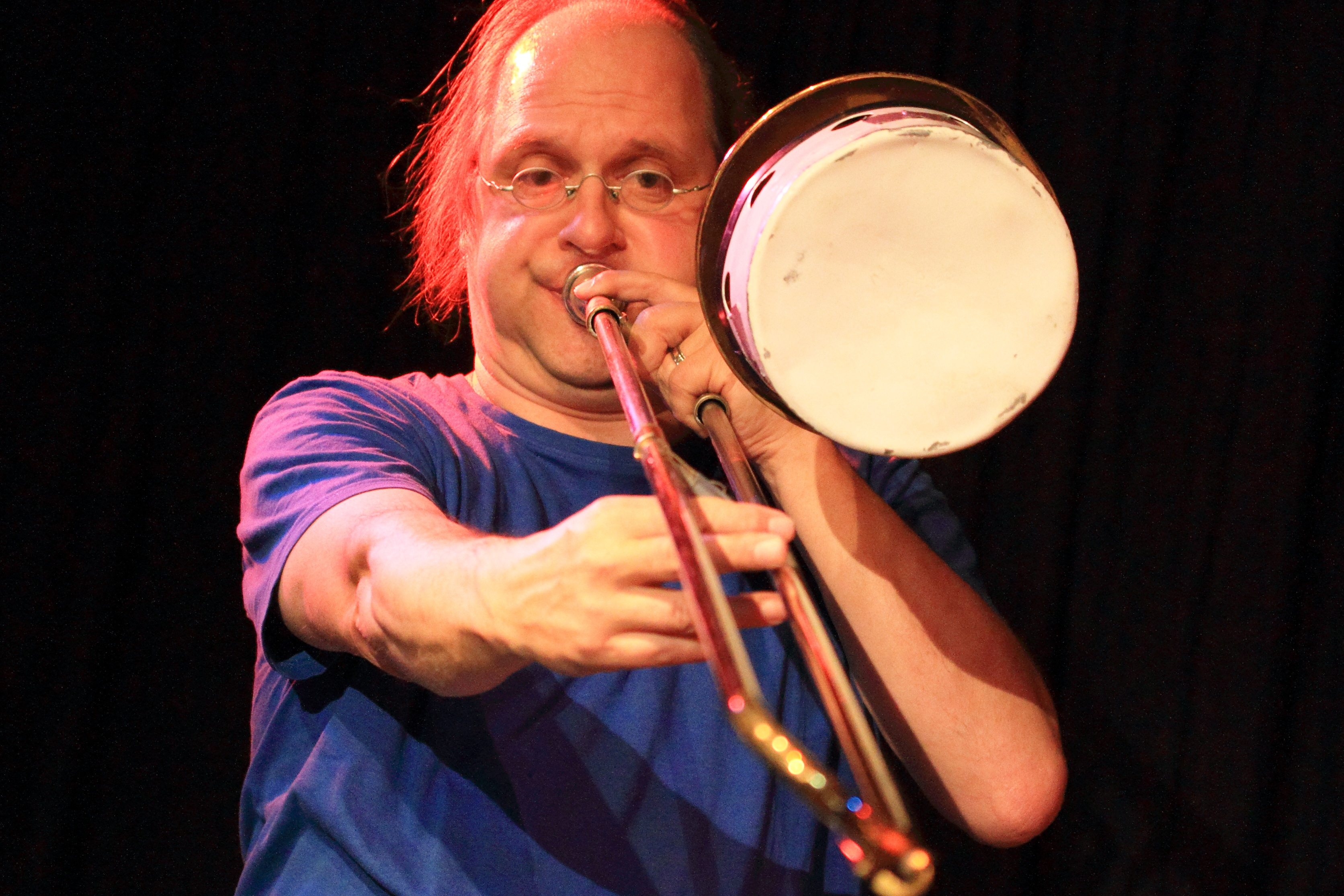 Christof Thewes in concert with Ruf der Heimat at Club W71Weikersheim, 2015.